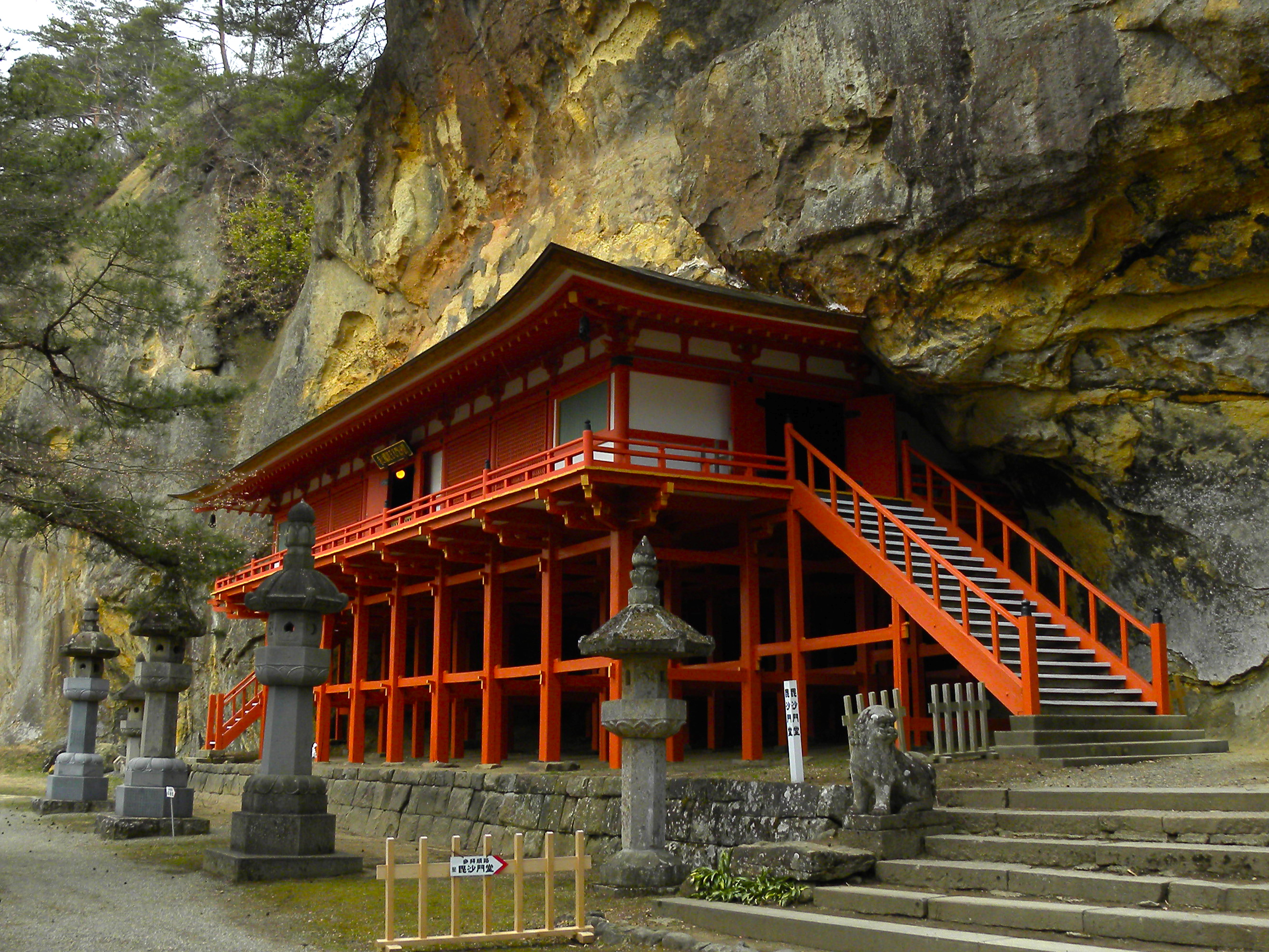 Takkoku no Iwaya Bishamondo in Hiraizumi Town, Iwate Prefecture, Japan